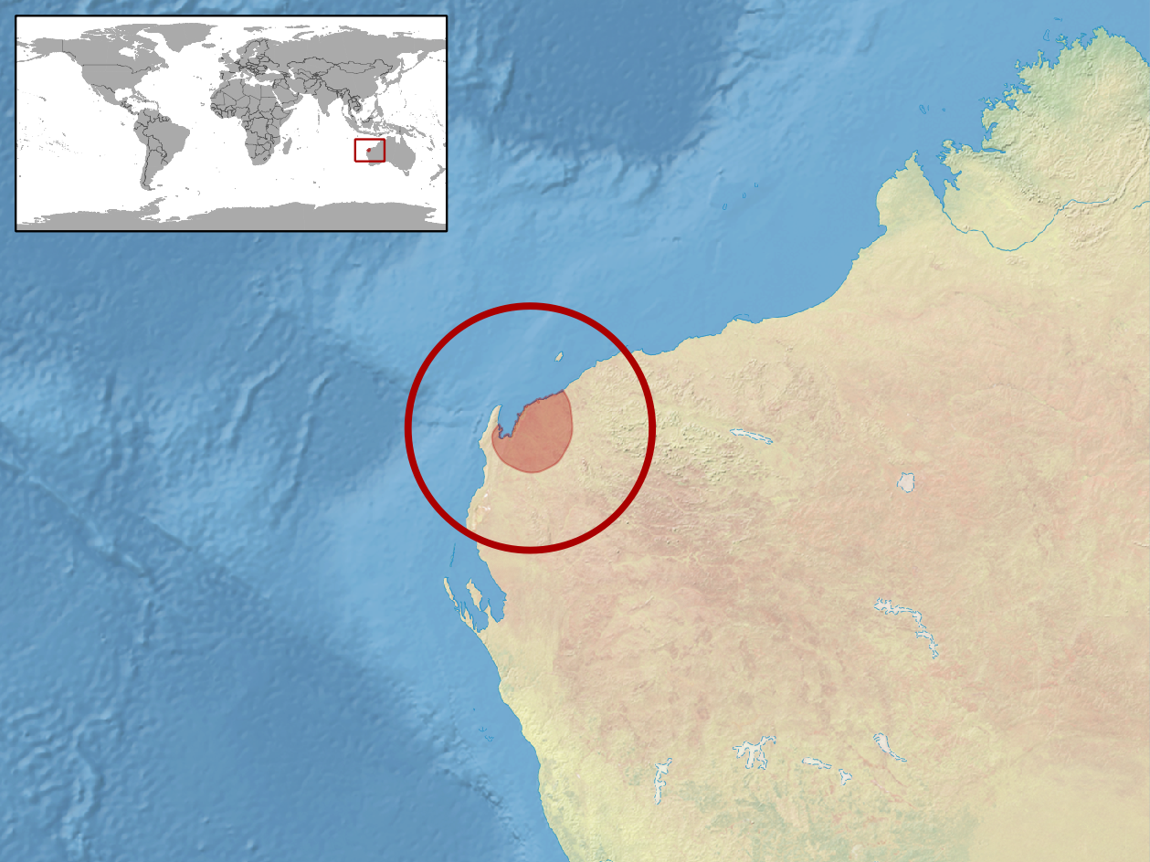 geographic distribution of Lerista onsloviana